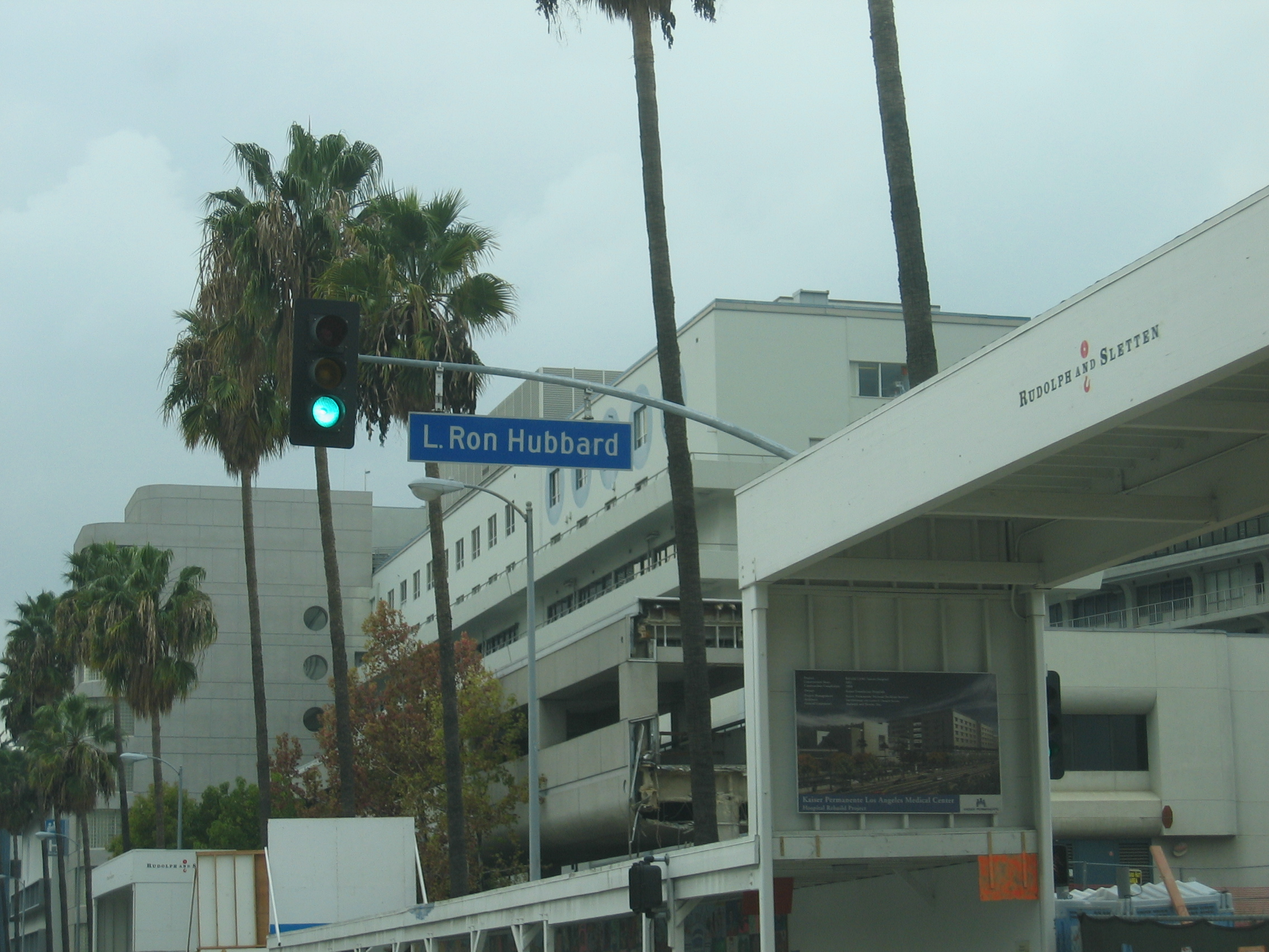 L. Ron Hubbard Way